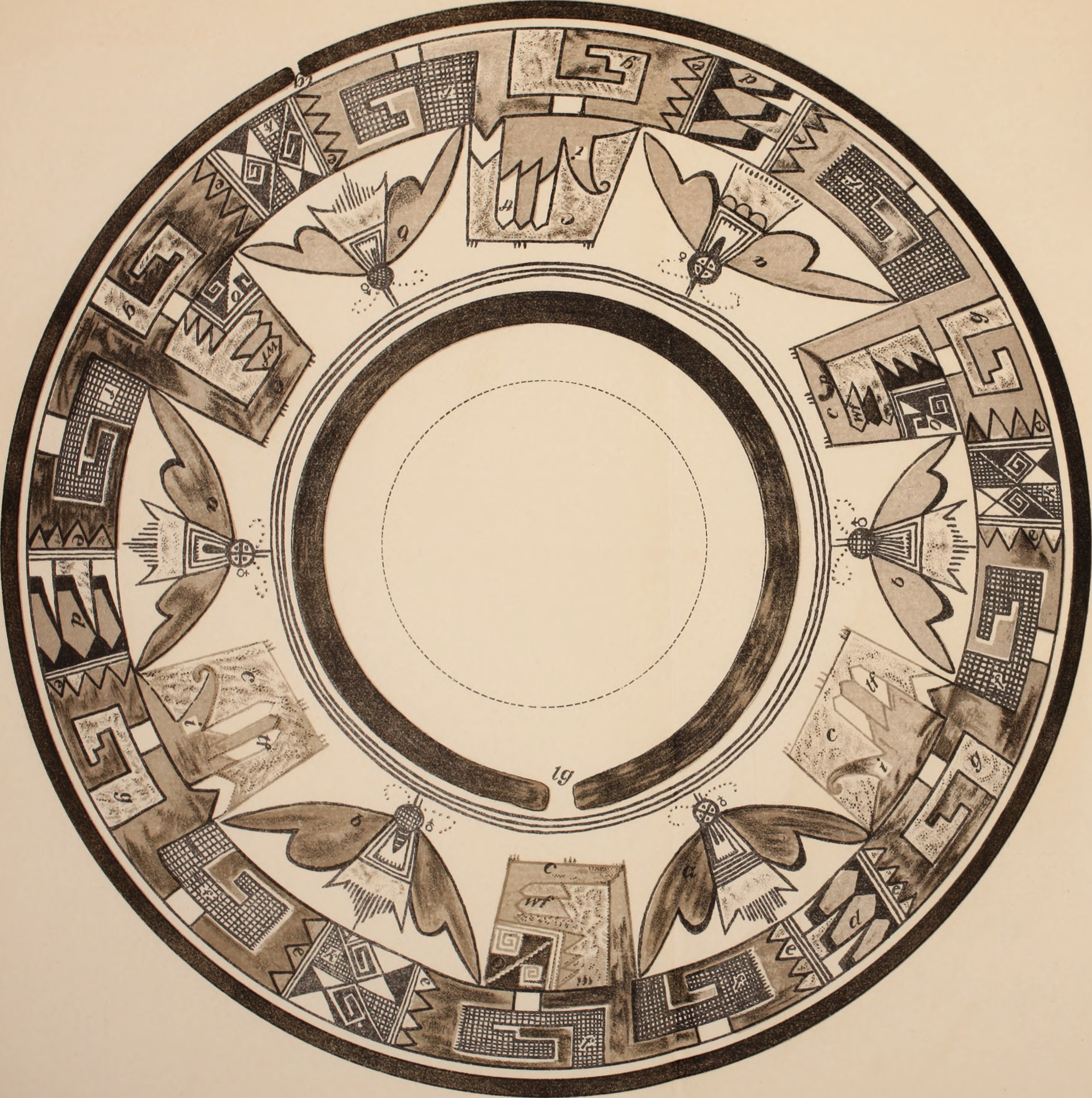 Title: Annual report of the Bureau of American Ethnology to the Secretary of the Smithsonian Institution Year: 1895 (1890s) Authors: Smithsonian Institution. Bureau of American Ethnology Subjects: Ethnology; Indians Publisher: Washington : U. S. Govt. Print. Off. Text Appearing Before Image: ' Text Appearing After Image: '